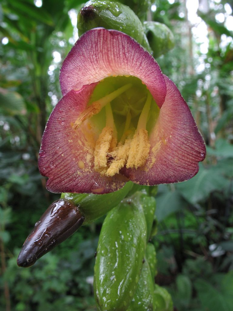 Vriesea oleosa in cultivation at the Botanical Garden of Heidelberg, Germany.